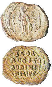 Seal of the Serbian ruler Djordje of Duklja, 12th century